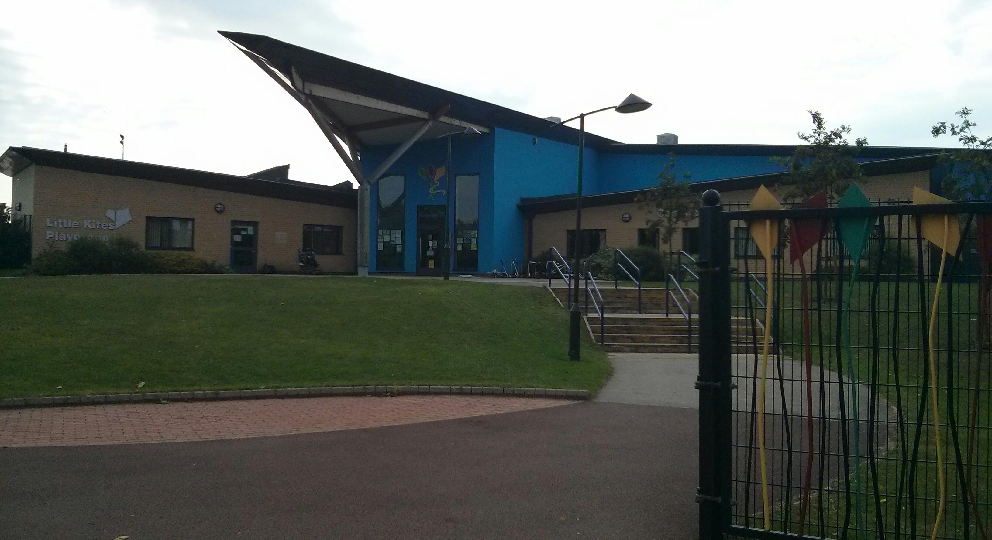 Cotgrave Candleby Lane School from the front.